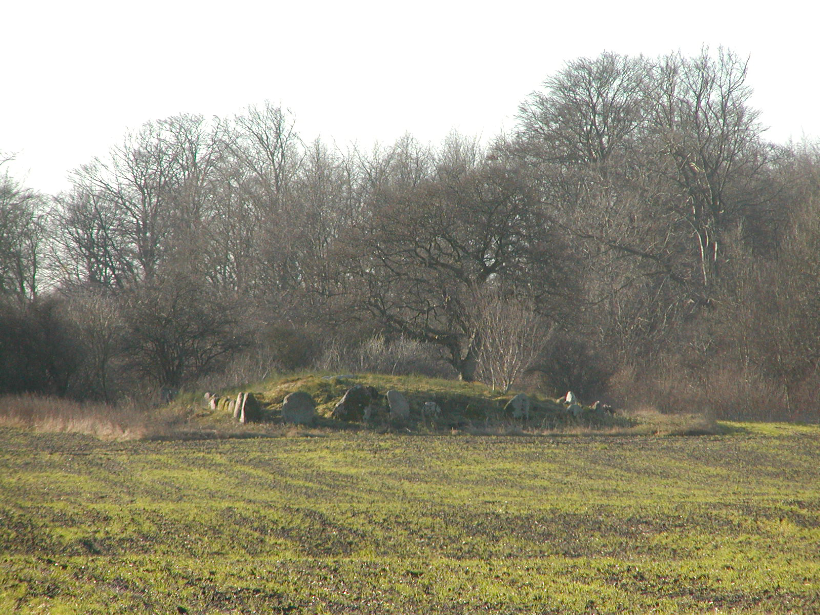 Rokkestenen, neolithic stone burial from 3500-3300 B.C. near Hillerød in Zealand in Denmark